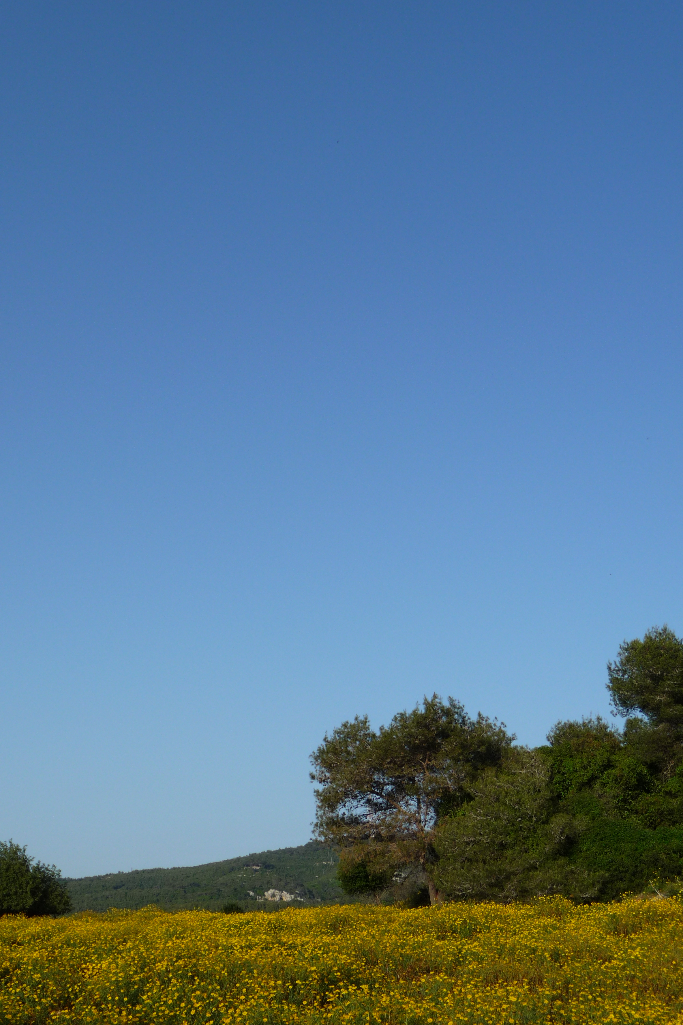 Beit Oren is a kibbutz in northern Israel. It falls under the jurisdiction of Hof HaCarmel Regional Council.